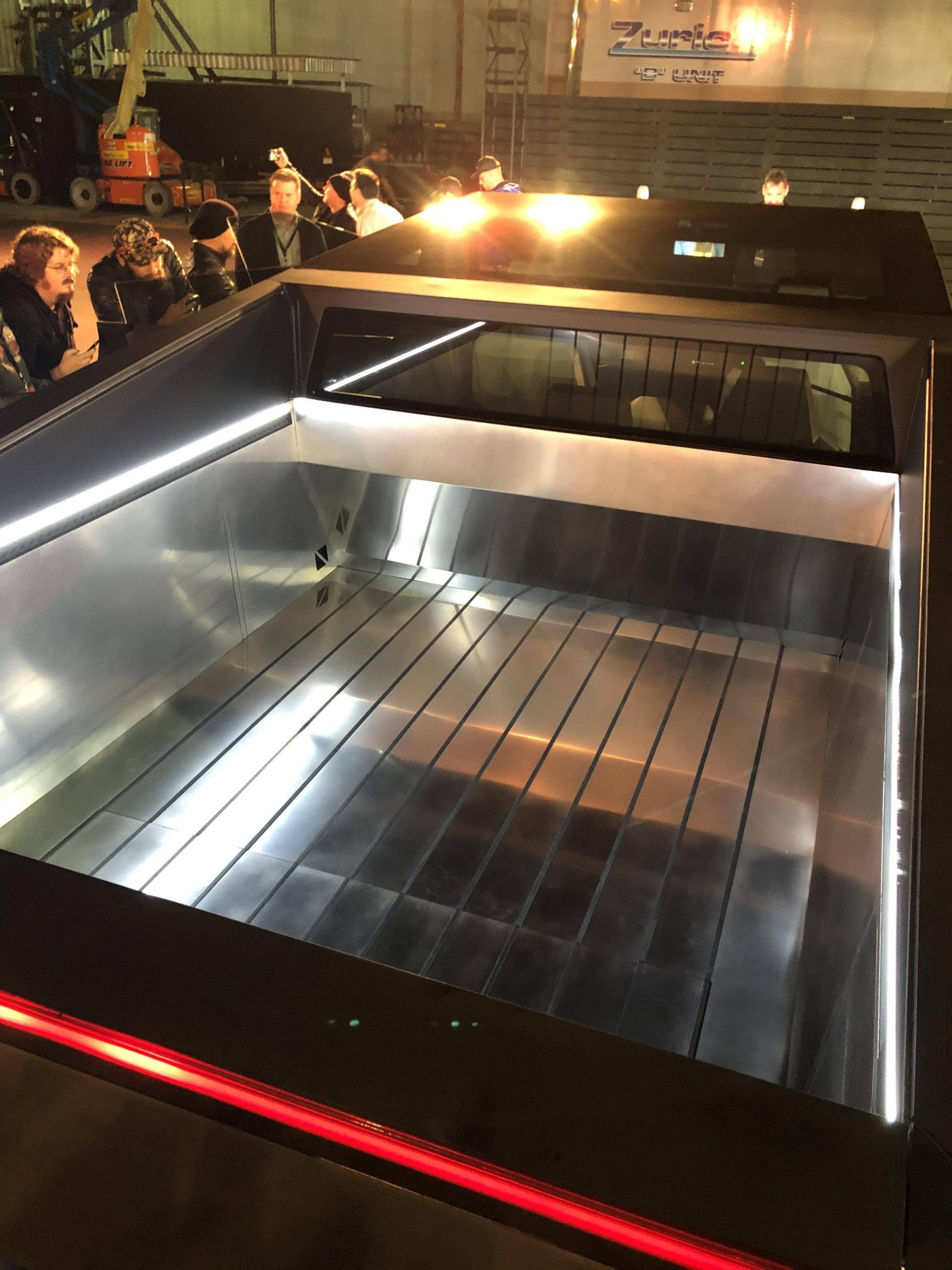 Tesla Cybertruck cargo vault open, looking through cabin rear window.